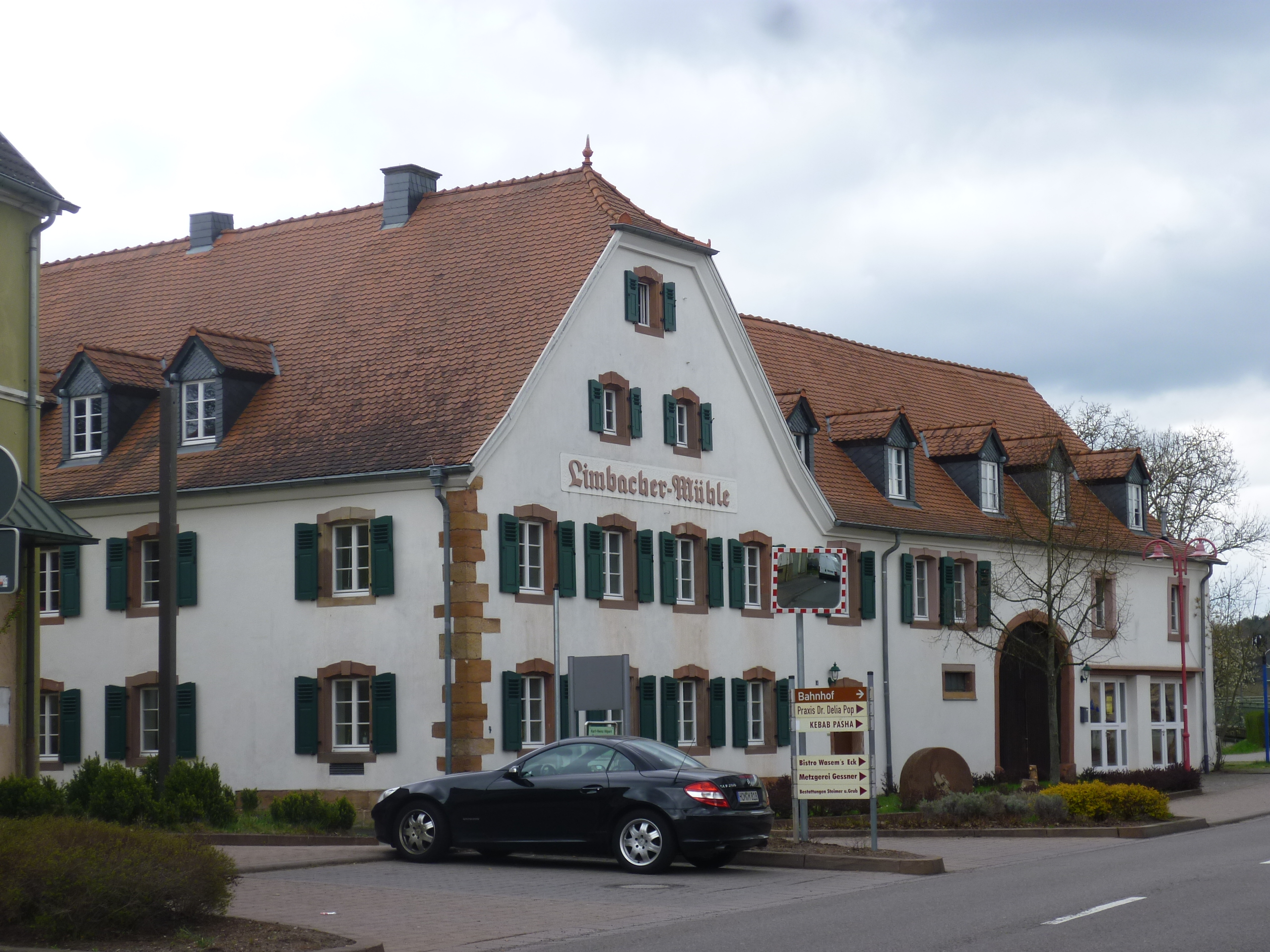 Heritage building in Limbach (Kirkel)